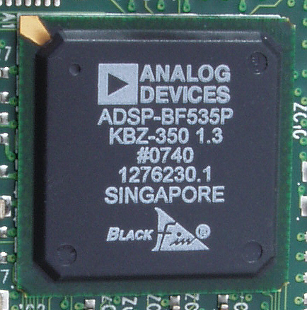 Analog Devices Blackfin BF535 Microcontroller/DSP